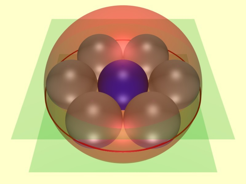 Still frame from Image:Hexlet_annular_opt.gif.